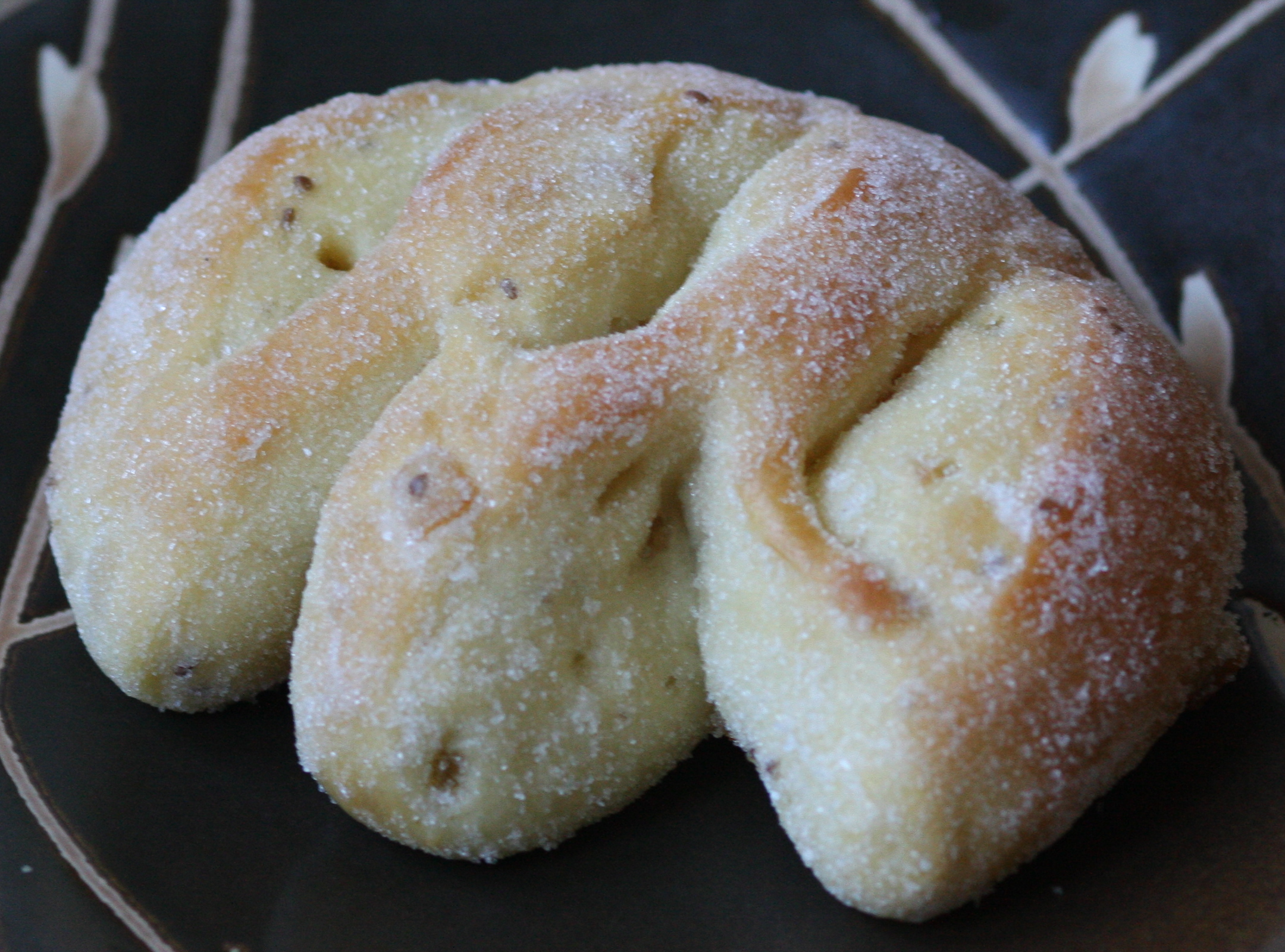 A gibassier pastry from Pearl Bakery, Portland, Oregon.